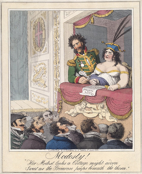 Modesty!, etching, published by G. Humphrey , London, 7th June 1821, (Caroline of Brunswick, wife of King George IV, at a theatre in Genoa, with her secretary and constant companion Bartolomeo Pergami) Victoria and Albert Museum, London, Museum number: S.51-2008